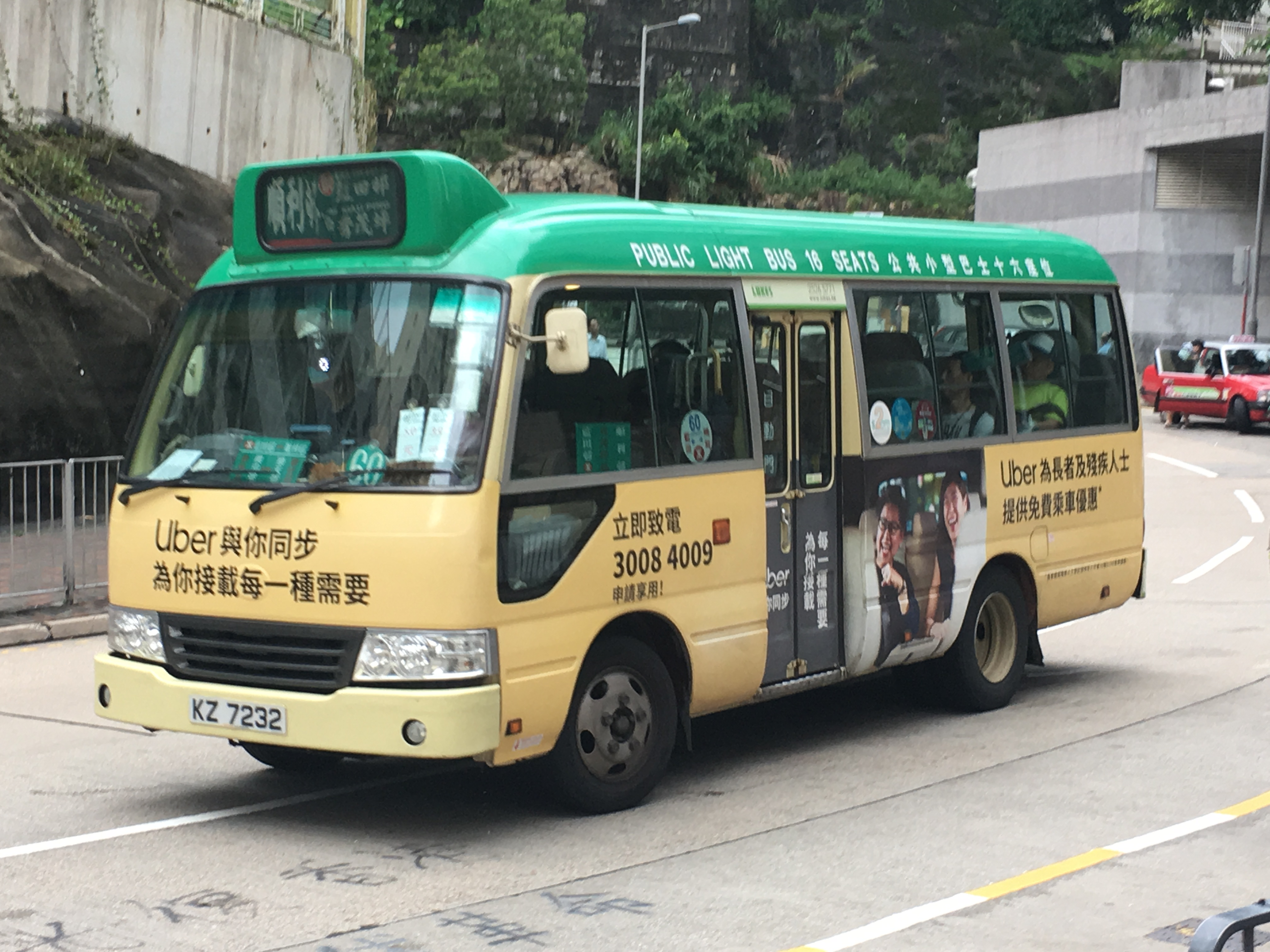 中文（香港）: This photo is taken in Ping Tin.